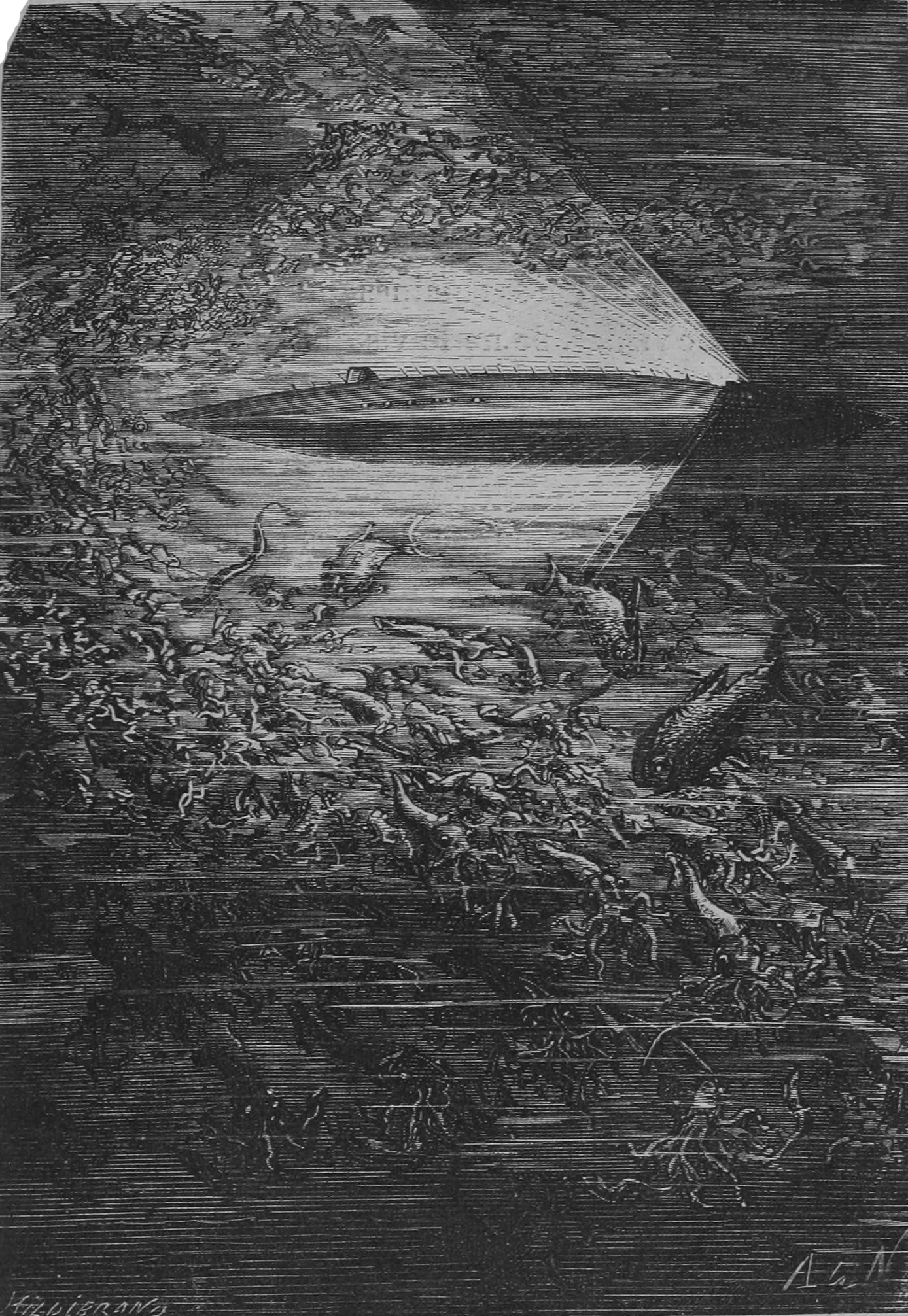 Image from scan vingtmillelieue00vern_orig_0147.jp2